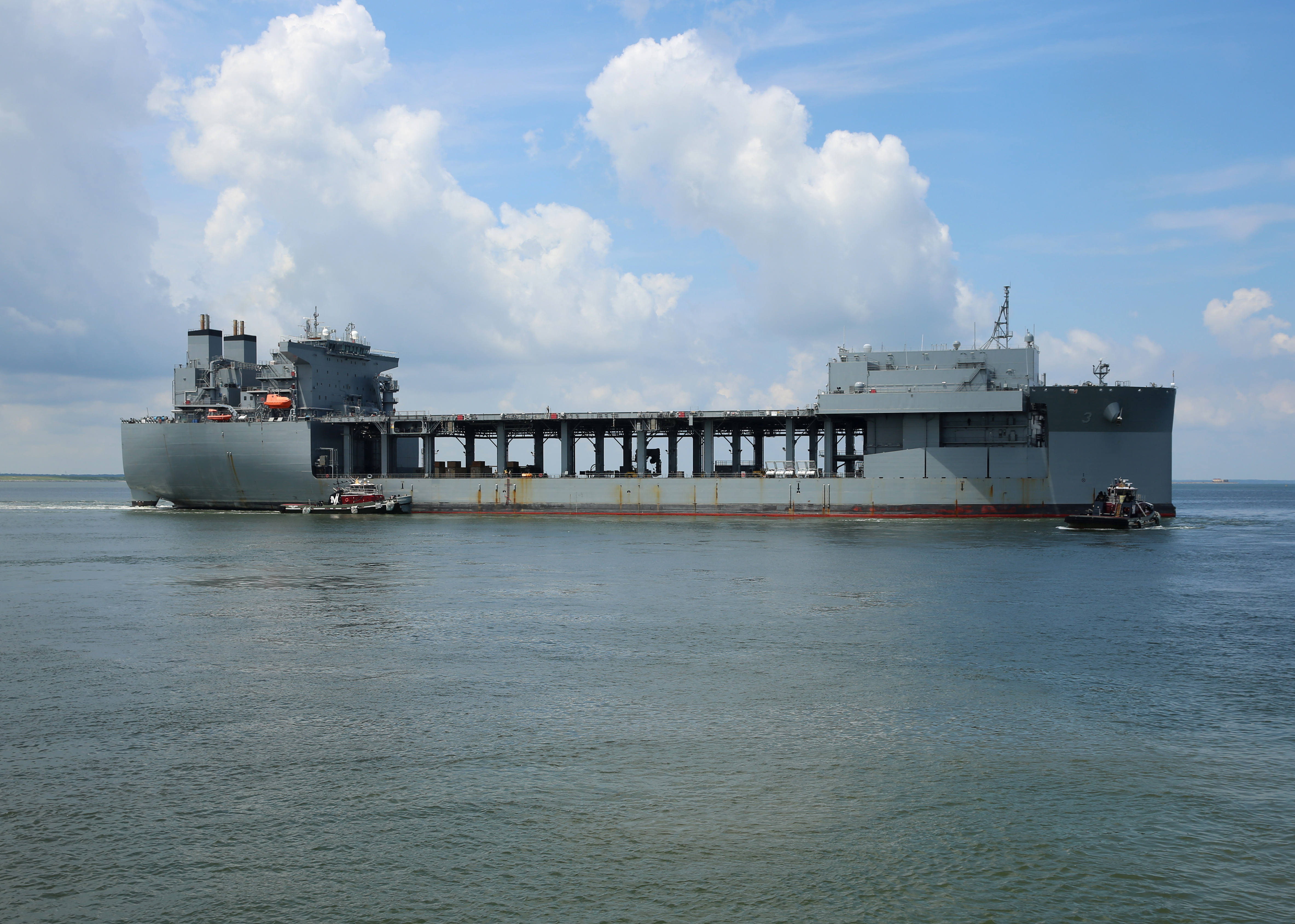 The U.S. Military Sealift Command expeditionary mobile base USNS Lewis B. Puller (T-ESB-3) departs Naval Station Norfolk, Virginia (USA), on 10 July 2017 for its first operational deployment. Puller was deploying to the U.S. 5th Fleet area of operations in support of U.S. Navy and allied military efforts in the region.